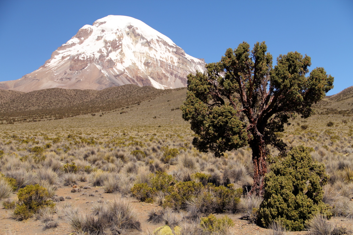 Queñua tree at the foot of Mount Sajama, National Park Sajama, Bolivia.